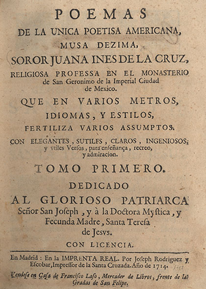 First volume of Works by Sor Juana Inés de la Cruz, 1714